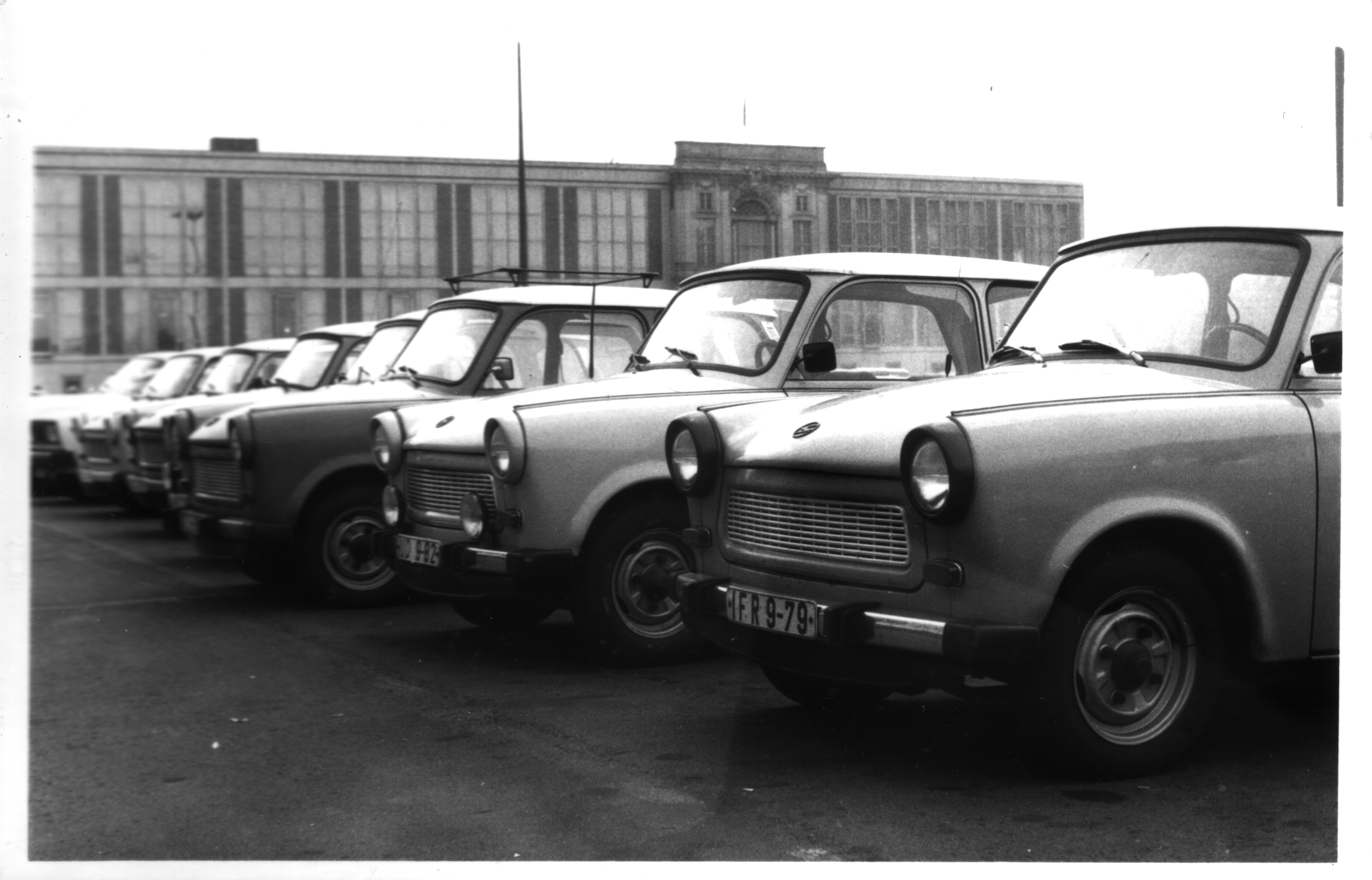 East Berlin Staatsratsgebäude Parking lot with what appears to be seven Trabant 601 and a single (pricey) Lada Nova